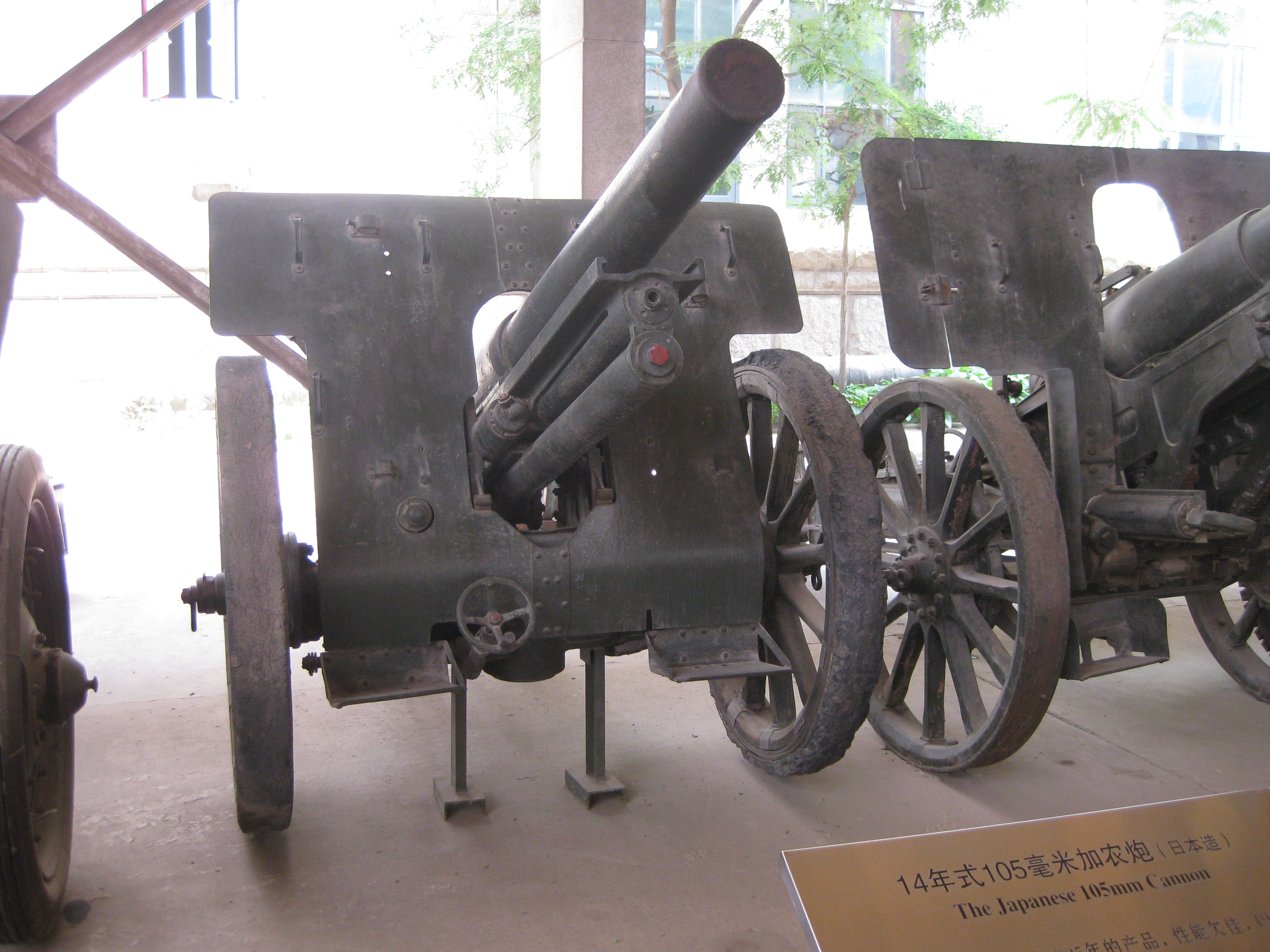 Photograph of IJA Type 14 105mm Cannon, in the Military Museum of the Chinese People's Revolution.